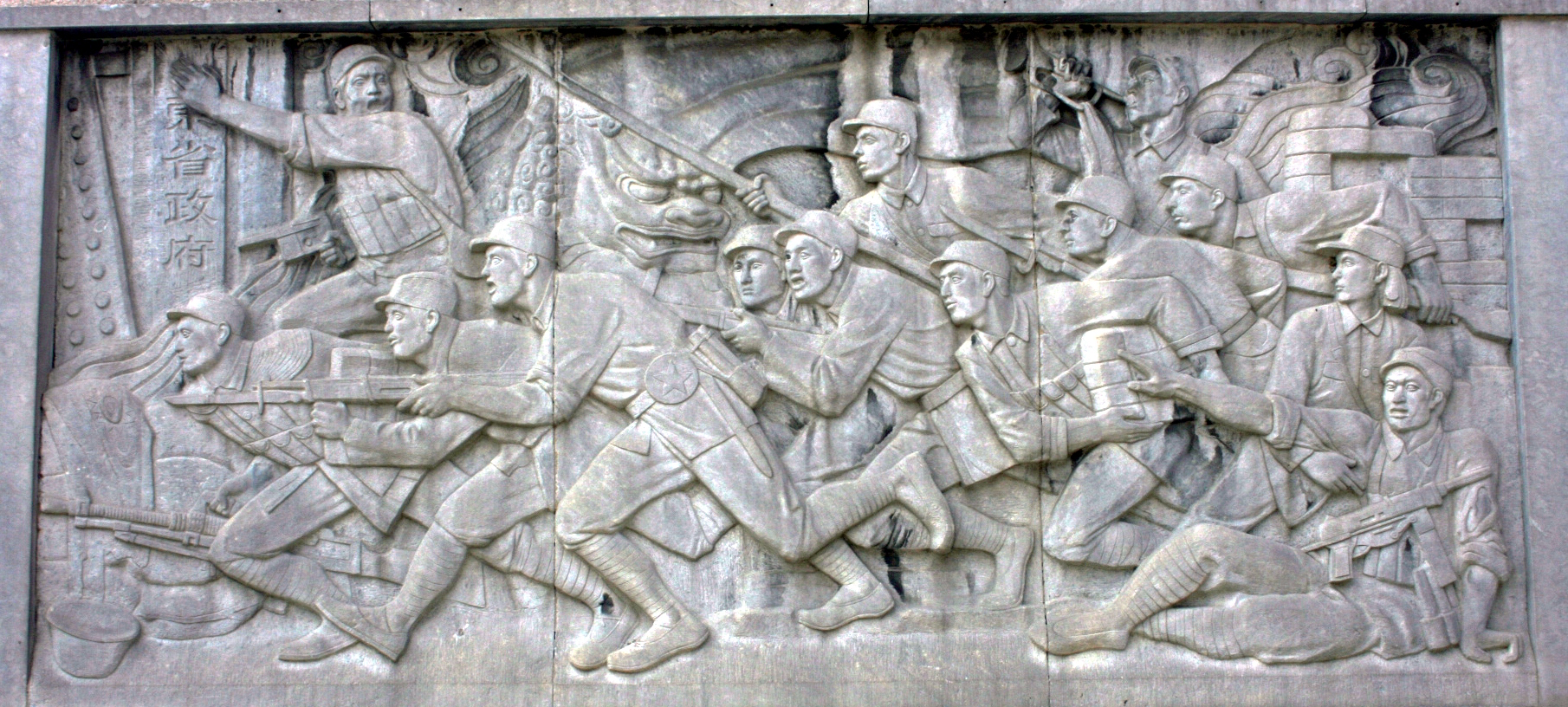 Bas-relief on the Liberation Pavilion in the city of Jinan, Shandong Province, China. The relief depicts the storming of the provincial government by the troops of the People's Liberation Army.